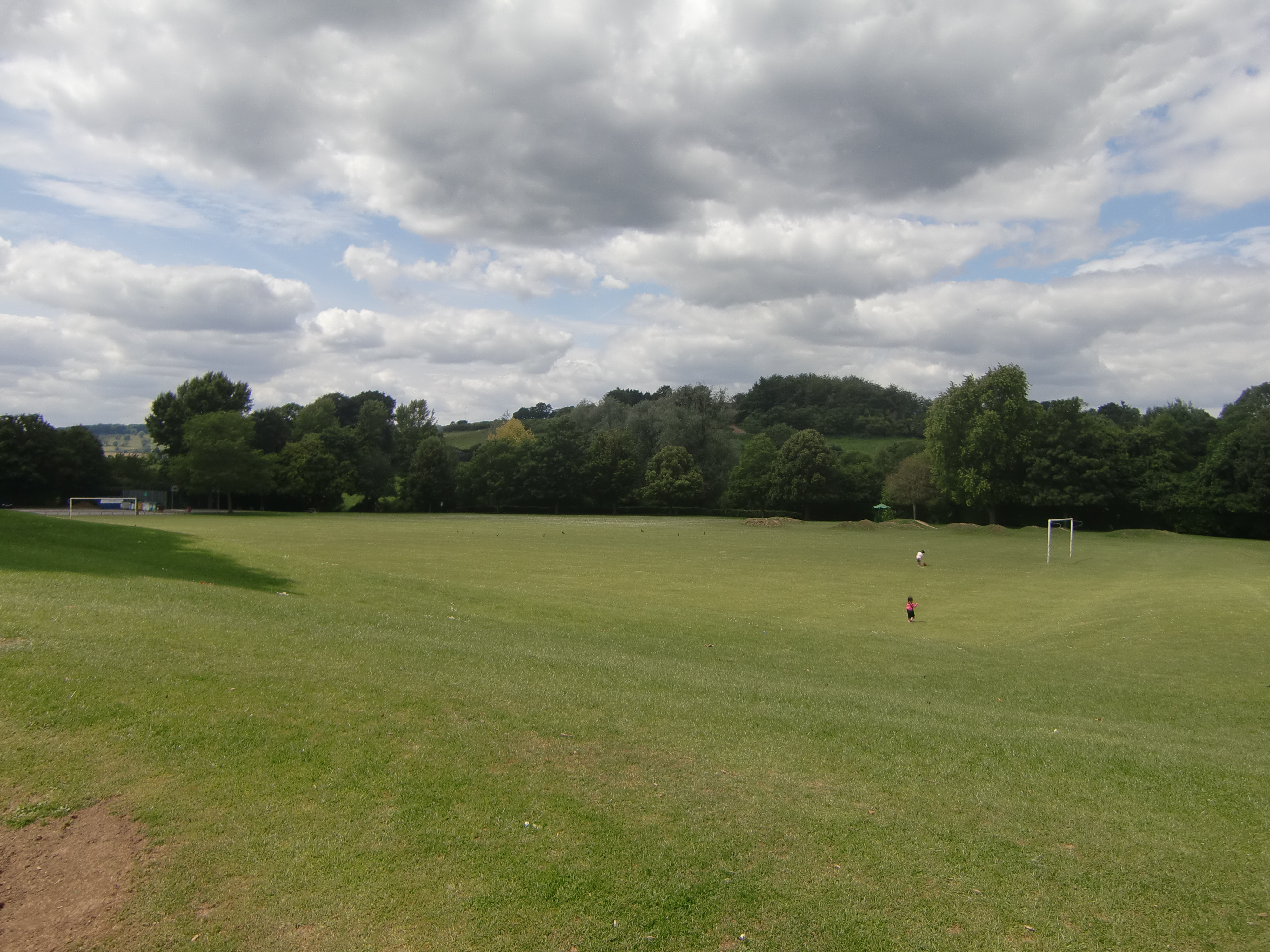 This is a photo of The Recreation Ground in Box, Wiltshire, England.